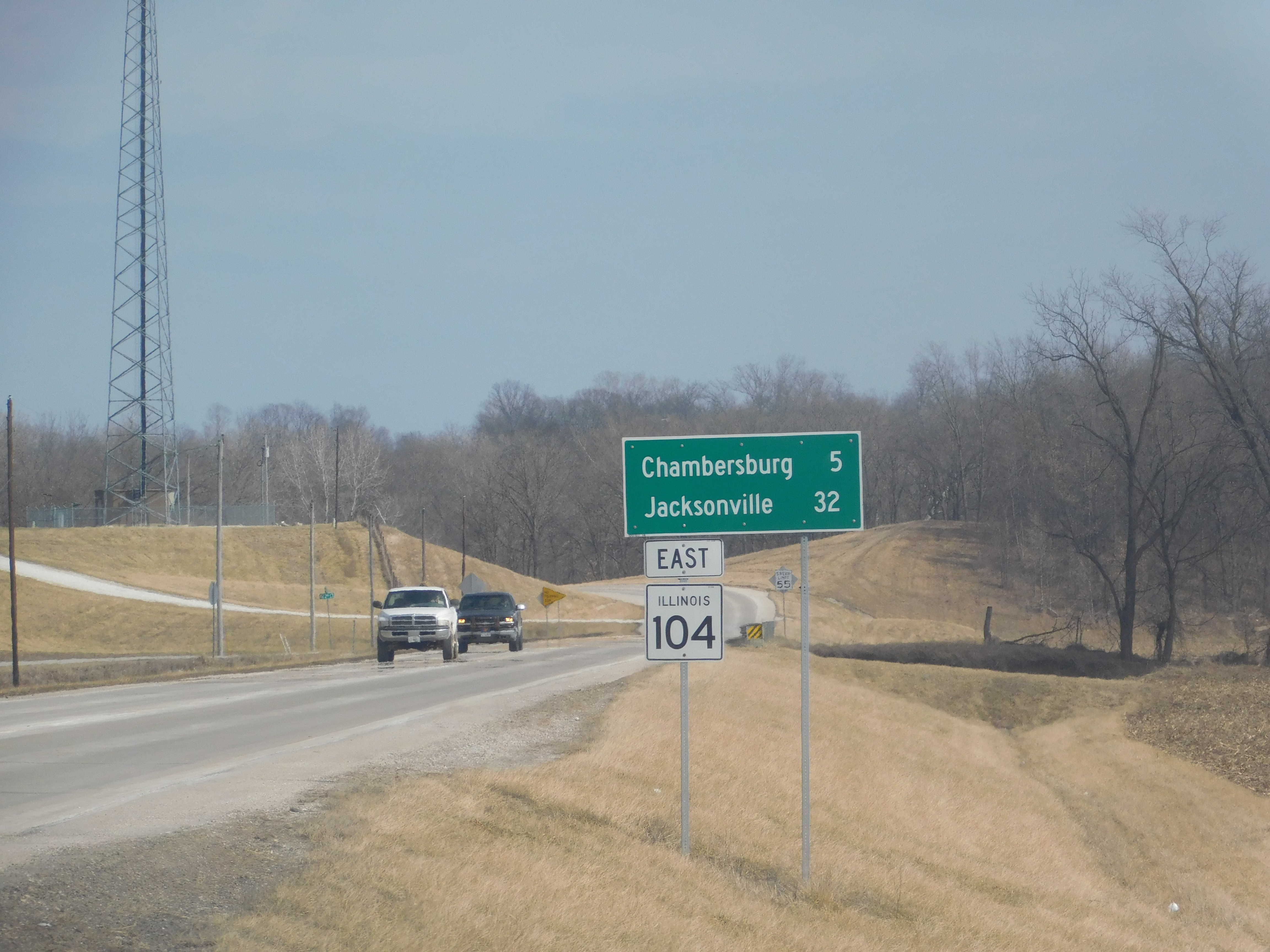 IL 104 east of IL 107 north of Perry, Illinois.